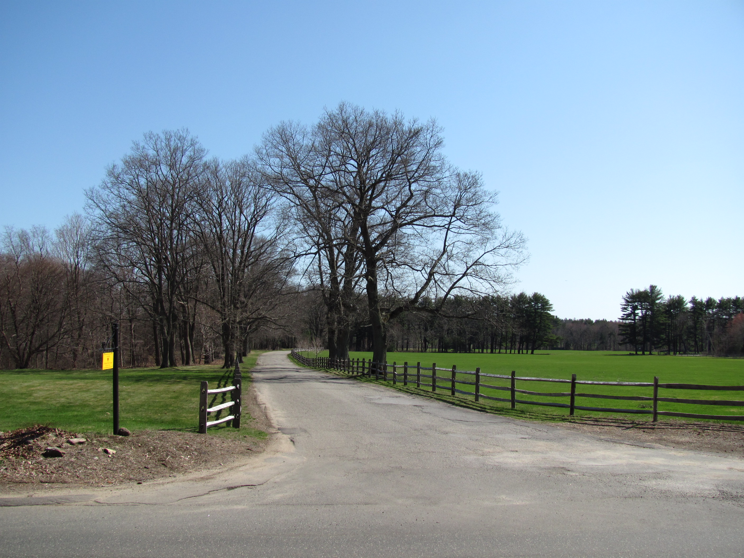 Entrance to Myopia Hunt Club, South Hamilton Massachusetts, April 2010